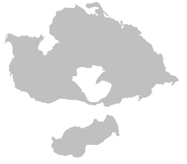 Estimation and appoximation of Pangea Ultima, based on information at [1]; not for scientific use.